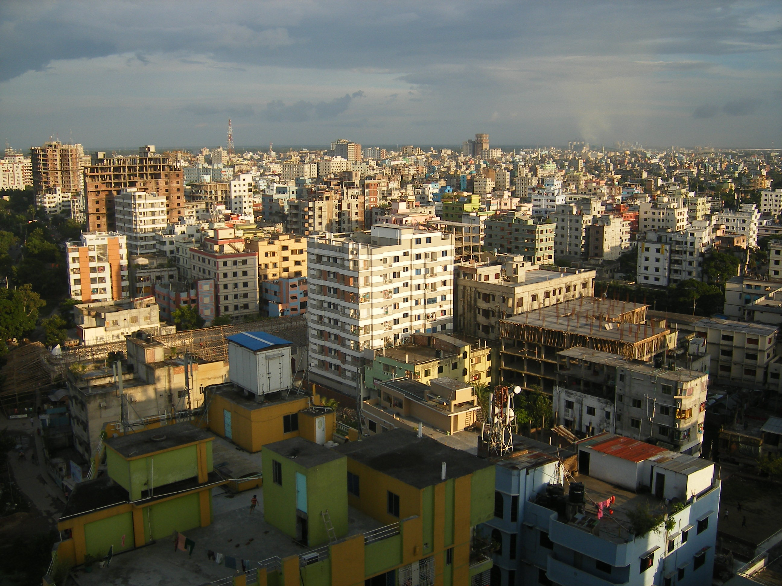 from 19th floor